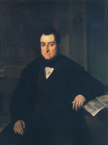 Joaquim Espalter i Rull (1809-1880), Portrait of Bonaventura Carles Aribau (1844). Oil on canvas, 117 x 90 cm